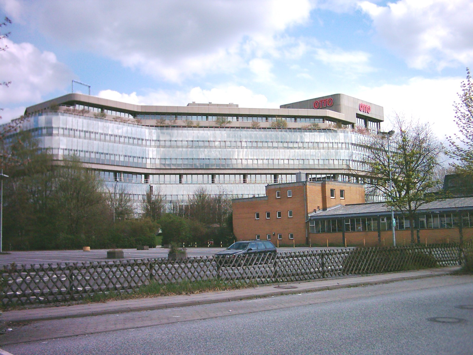 Head Office of Otto-Versand in Hamburg, Germany.